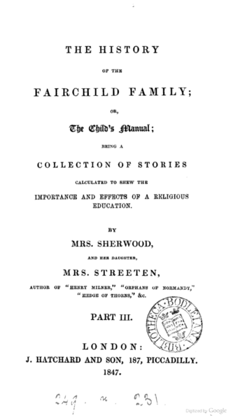 Title page for Mary Martha Sherwood, The History of the Fairchild Family, London: J. Hatchard, 1847.